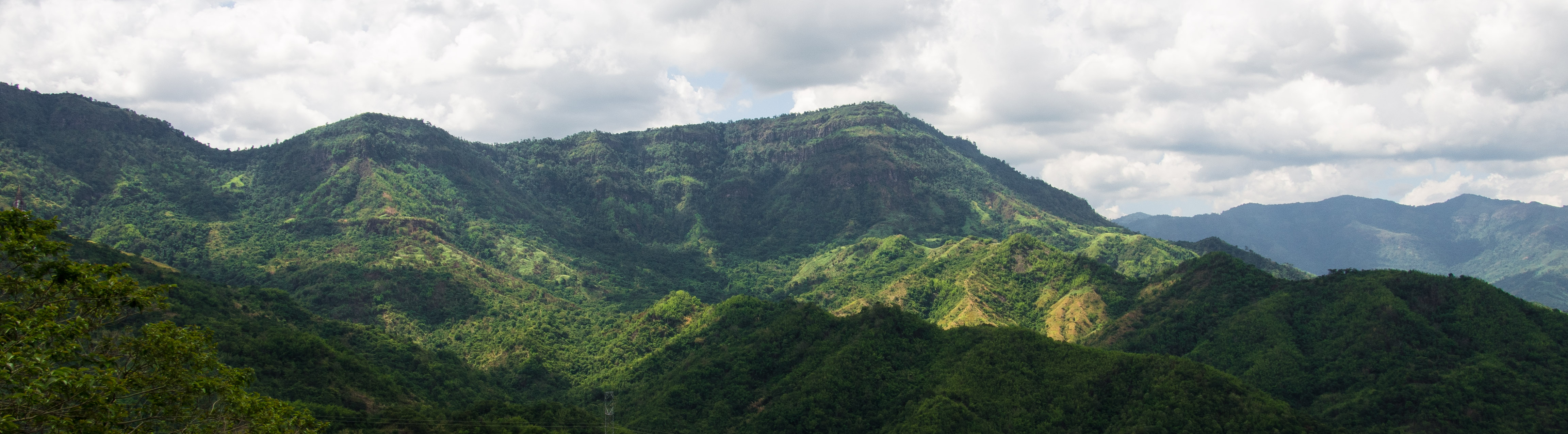 View to the north-west from Thai Highway 12/Asian Highway 16 of a mountain ridge of the Phetchabun mountains in Khao Kho District, at the start of the rainy season, May, 2013.